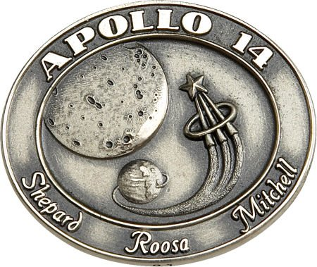 Photo of one of the 303 Robbins Medallions made for Apollo 14. This is medallion number 21. Presently it is owned by former NASA worker, Phil Konstantin.